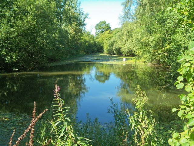 Cotswold pool. Although quite natural looking, the pool appears to have been man-made, damming a tributary of the River Windrush.